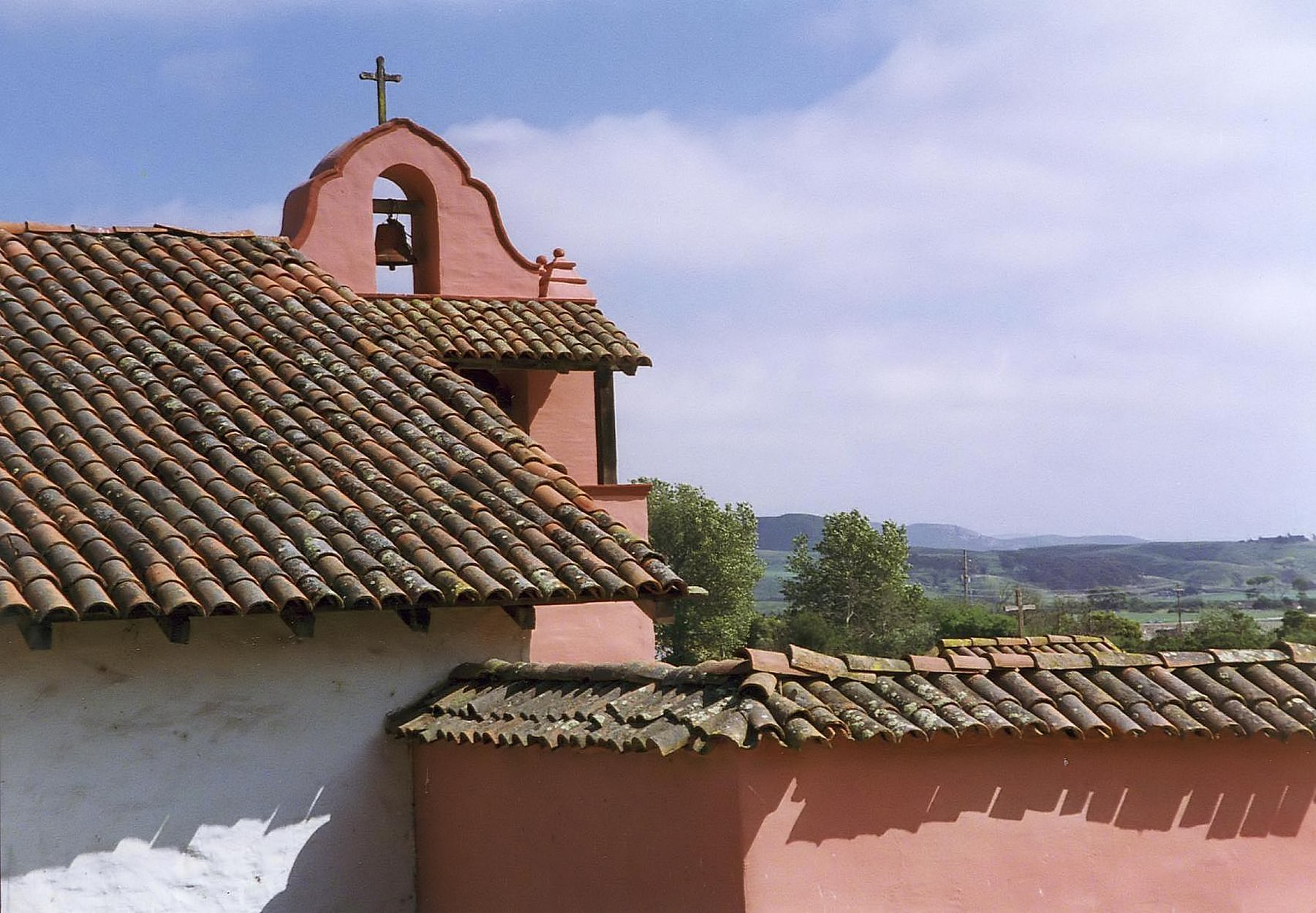 La Purisima Mission, Lompoc, California; founded on December 8, 1787, by Franciscan Padre Presidente Fermin Francisco Lasuen